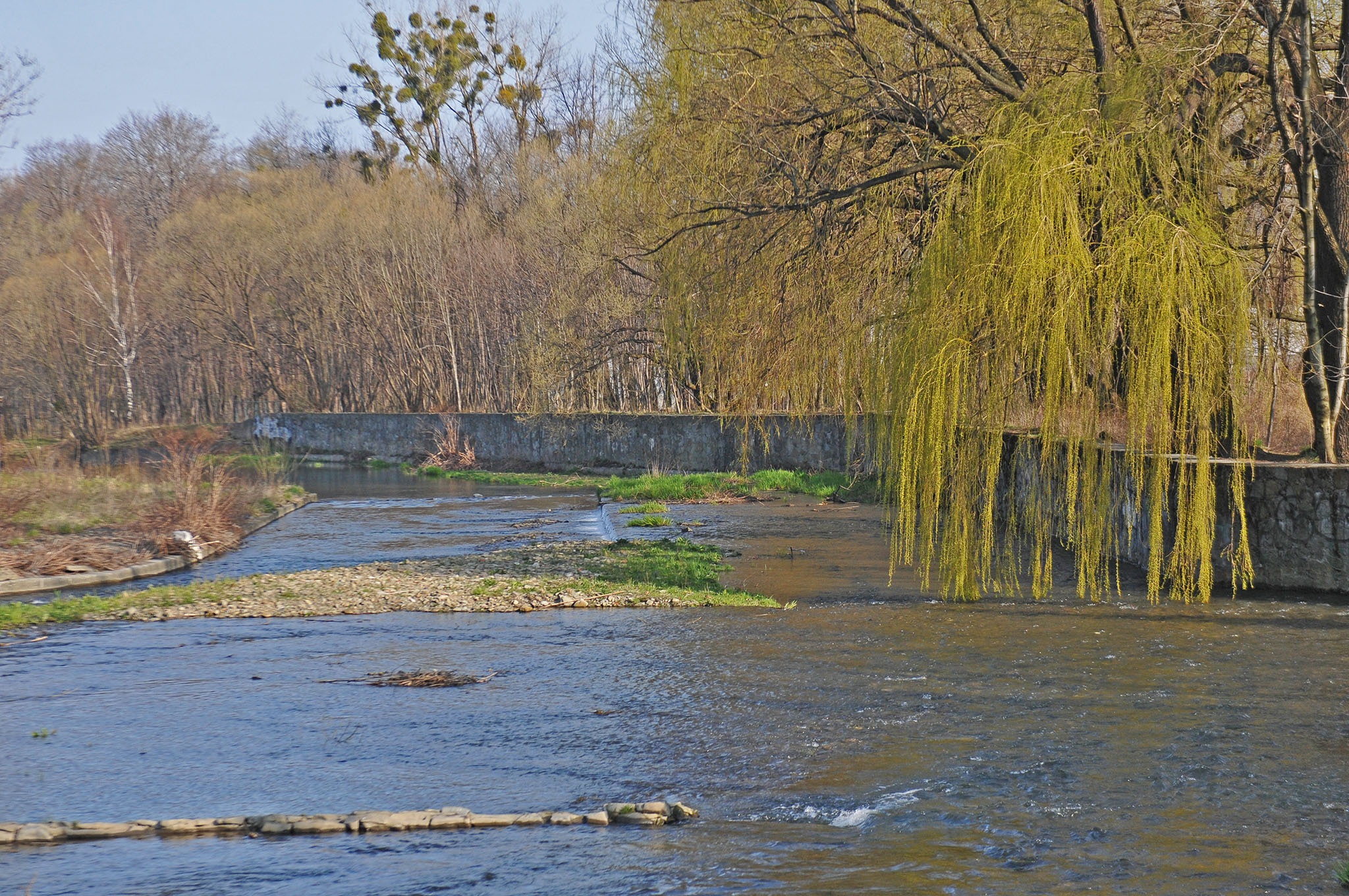 Biala (White) River in Bielsko-Biala City, 2016